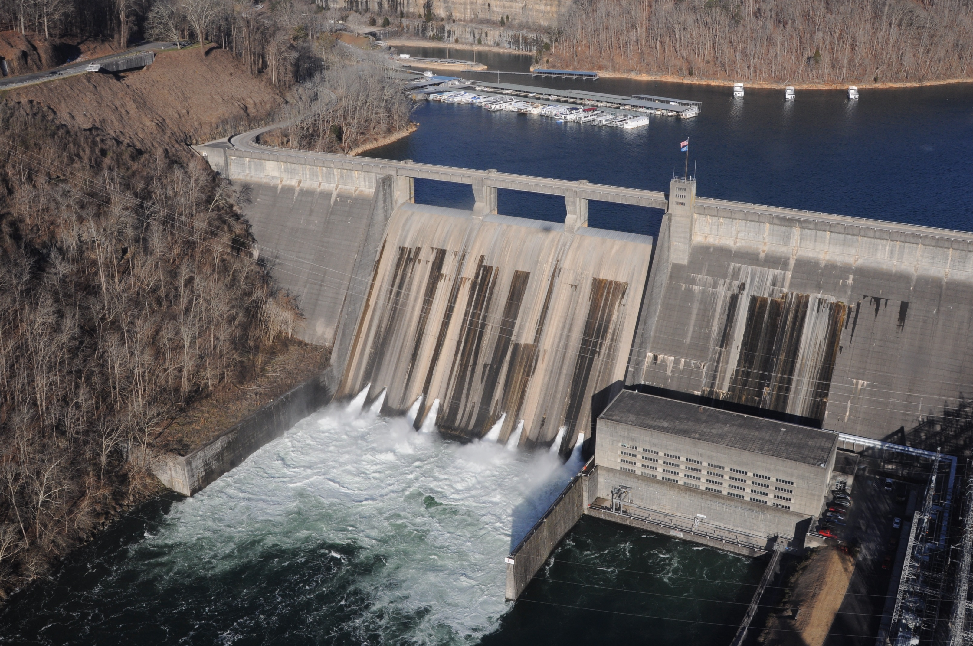 Norris Dam